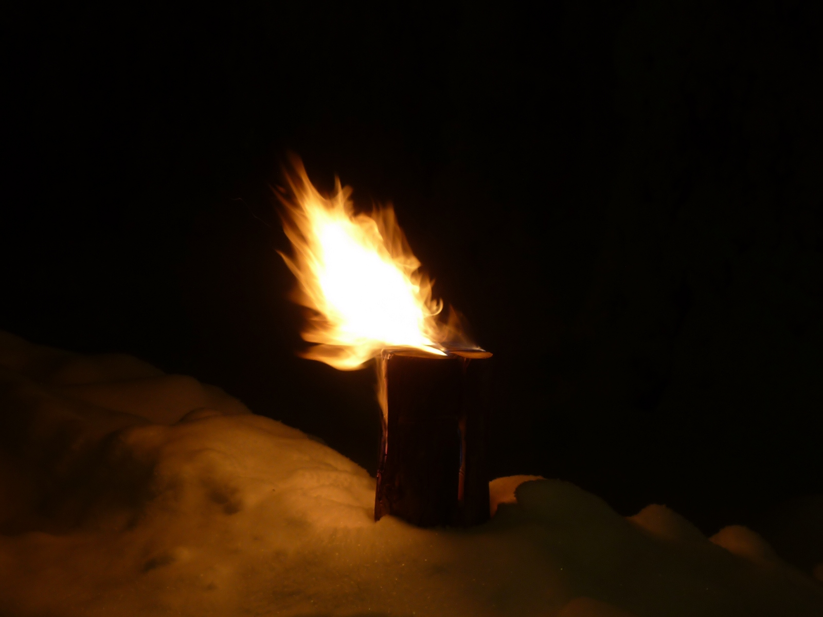 Lumberjack's Candle, A log burning in the snow in Ruka, Kuusamo, Finland